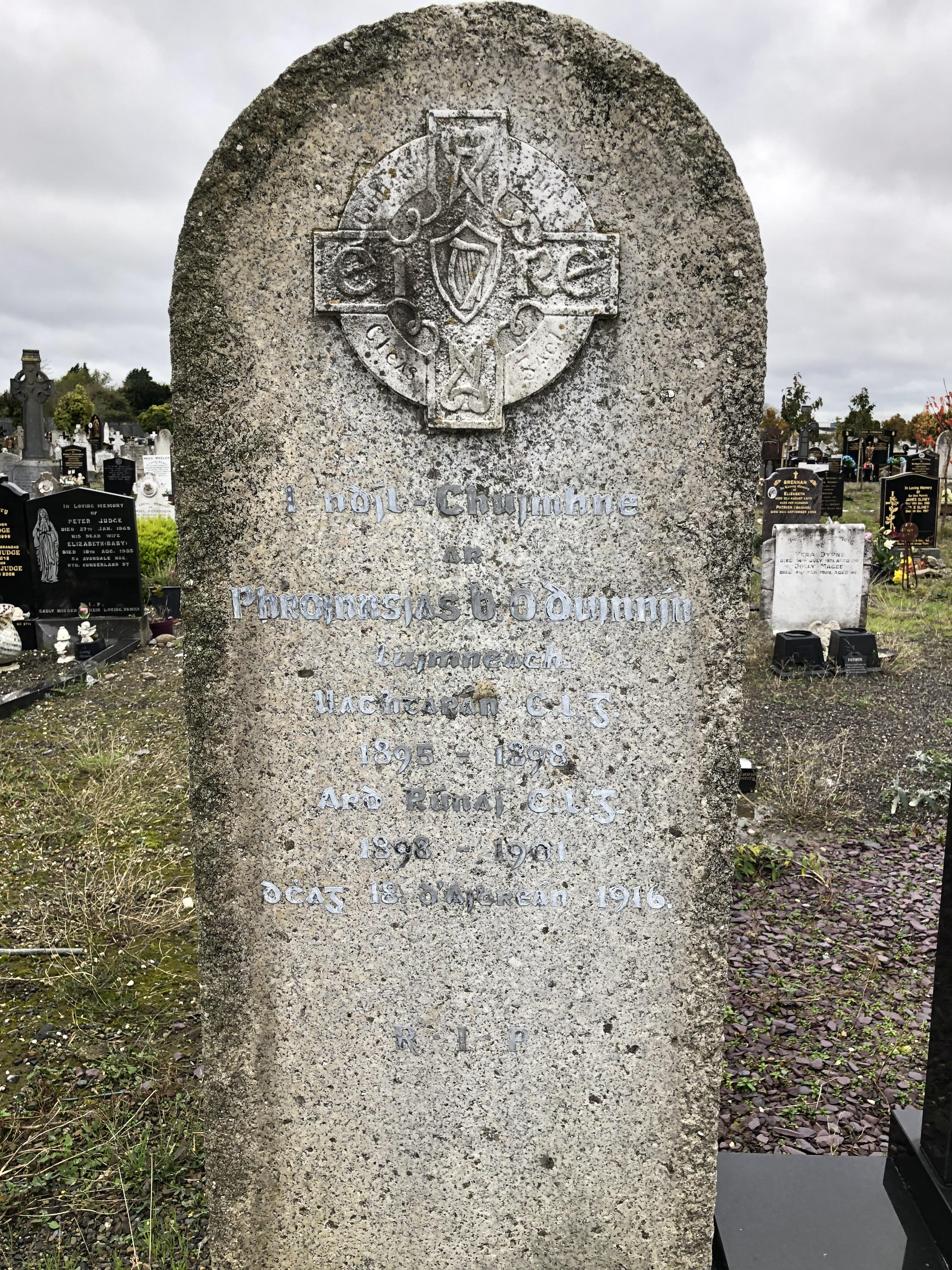 Frank Dineen's Headstone located in Glasnevin Cemetery